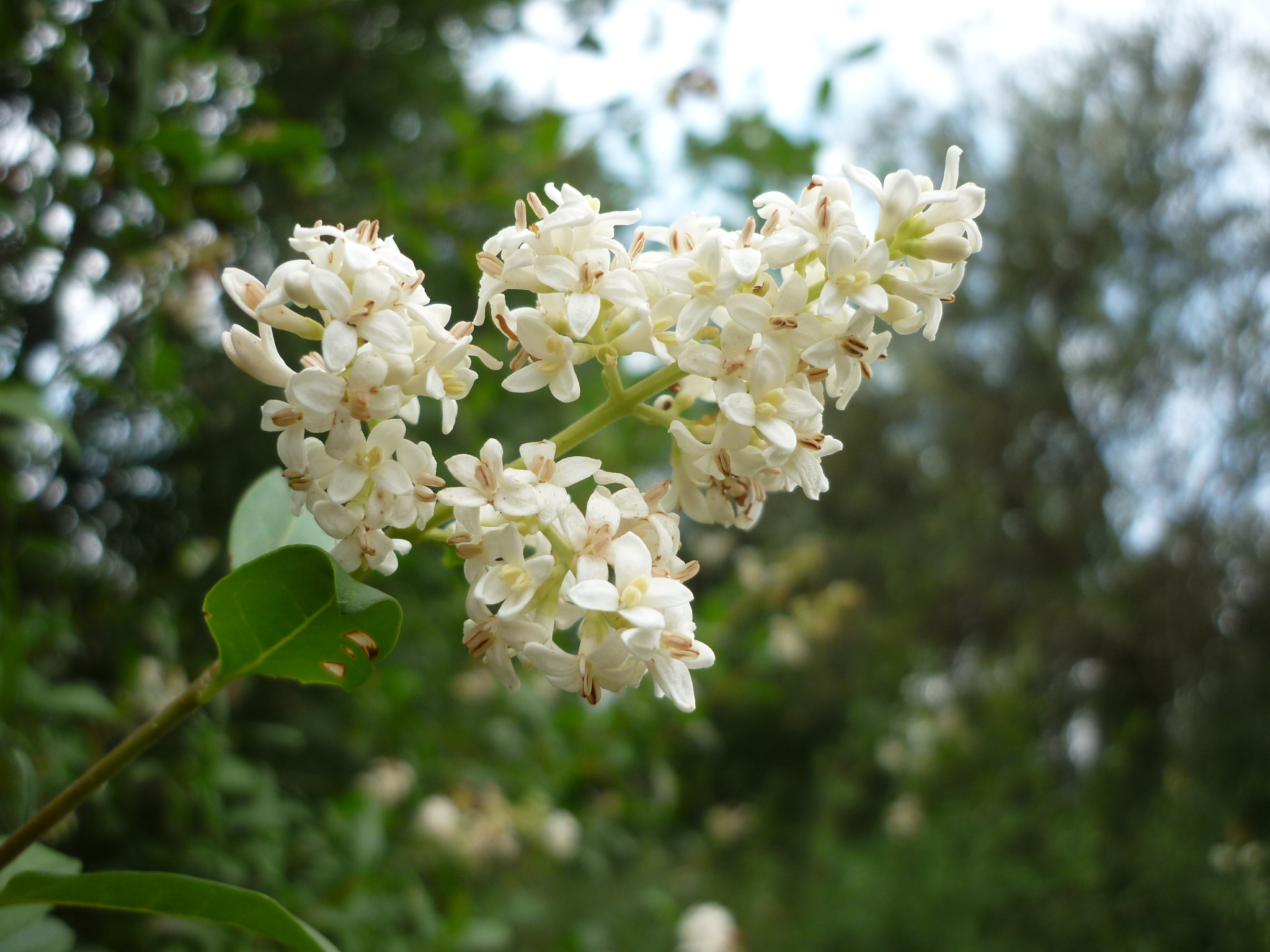 Ligustrum vulgare. In Torà (Segarra-Catalunya). To 565 m. altitude